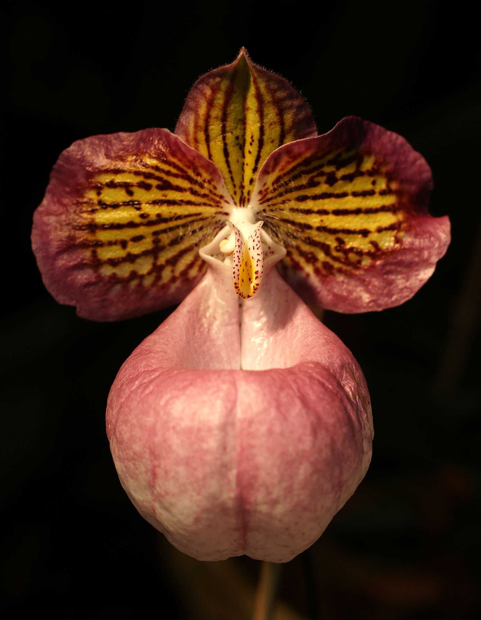 Paphiopedilum micranthum - flower